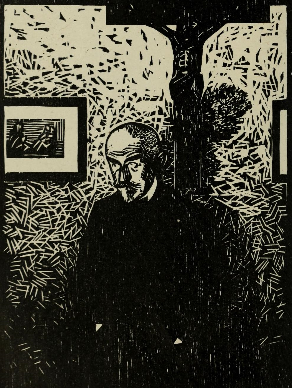 Joris Karl Huysmans